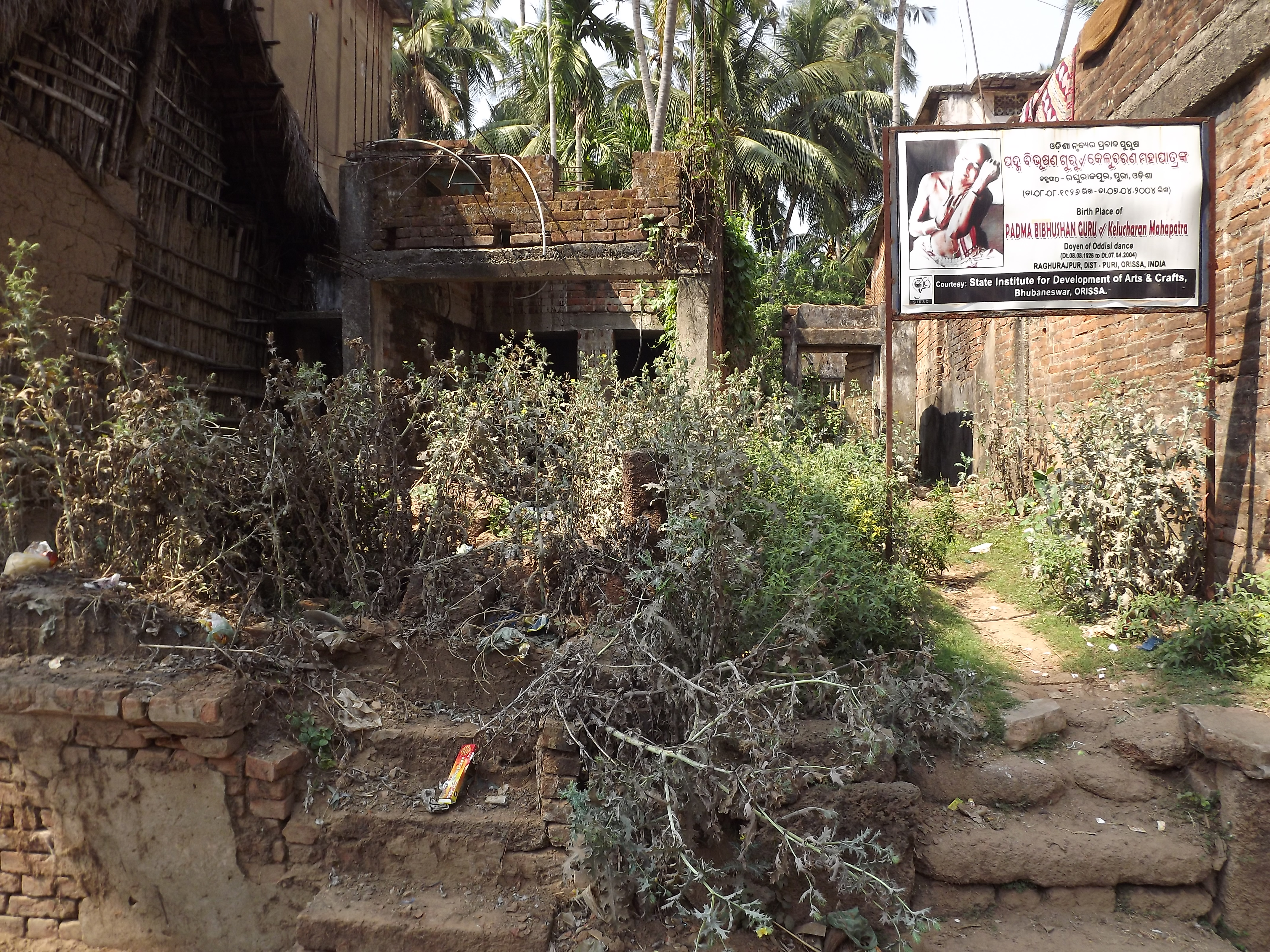 Birthplace of Guru Kelucharan Mahapatra, Raghurajpur, Odissa